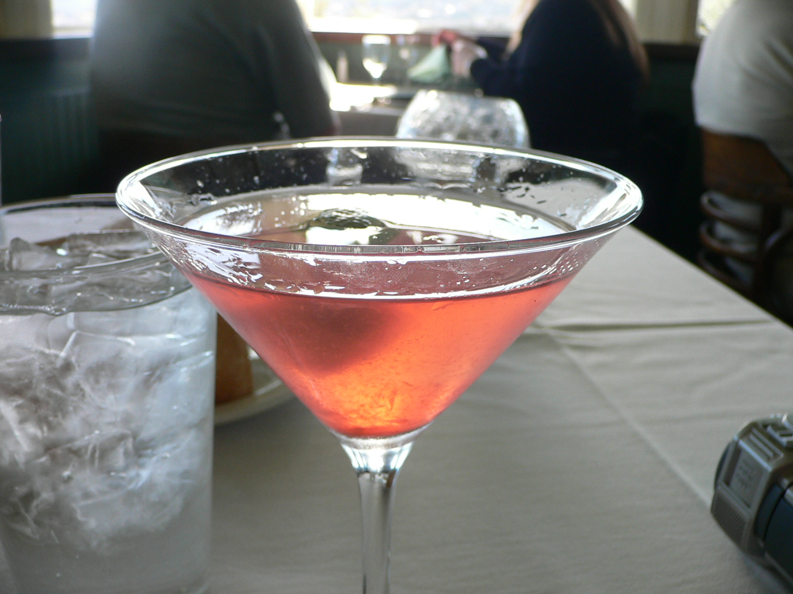 My first Cosmo: "I love gin--but this Cosmopolitan was a bit too strong for me. But it looked pretty, anyway." (drink)